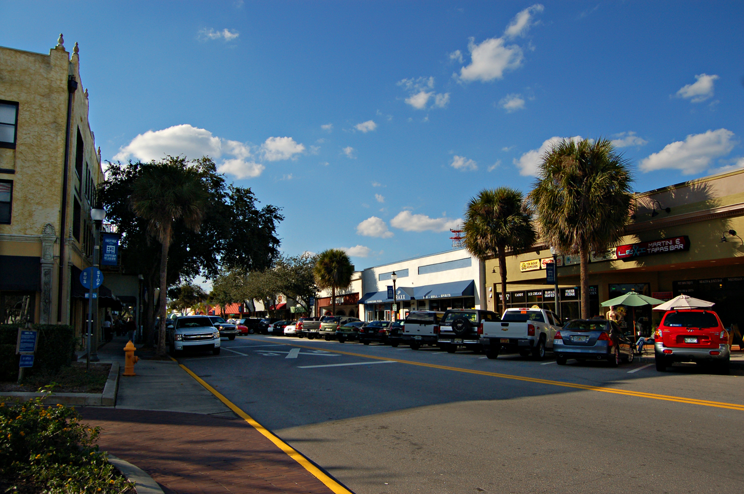 This is Historic Downtown Melbourne in Melbourne, Florida. This was taken at the railroad tracks near the old train depot.